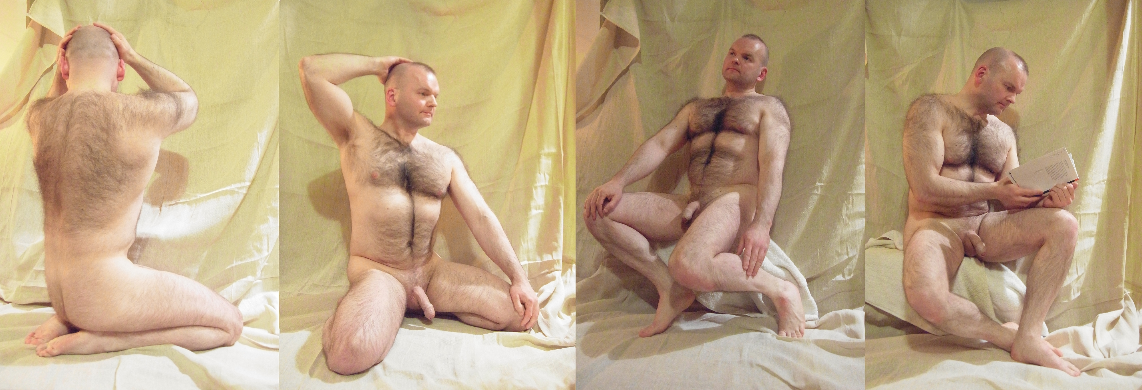 Composite series of figure study photographs taken during a bachelorette party art class